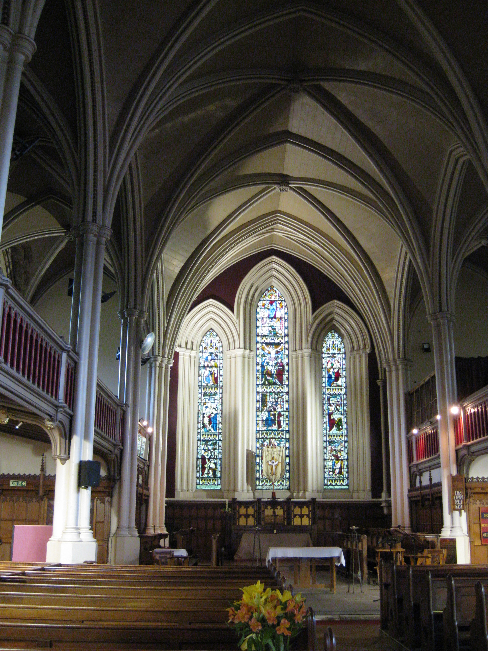 Inside the nave of the parish church of St Thomas the Martyr (Thomas Beckett), Haymarket, Newcastle-upon-Tyne, looking east to the chancel